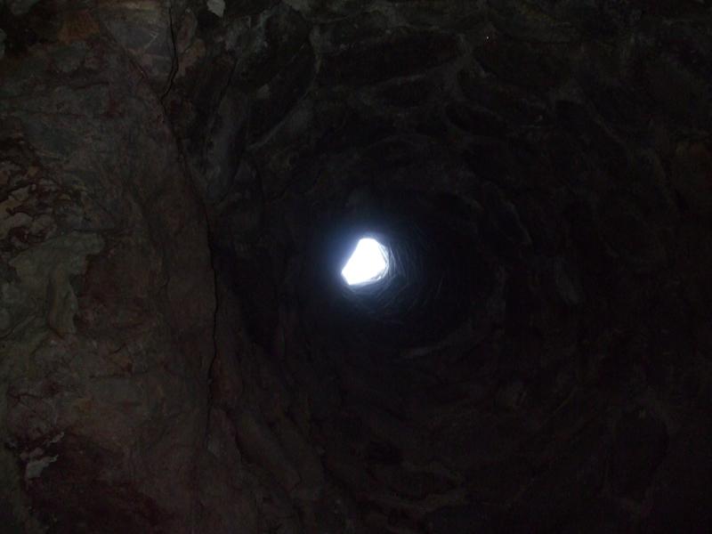 Oservatorio de Xochicalco